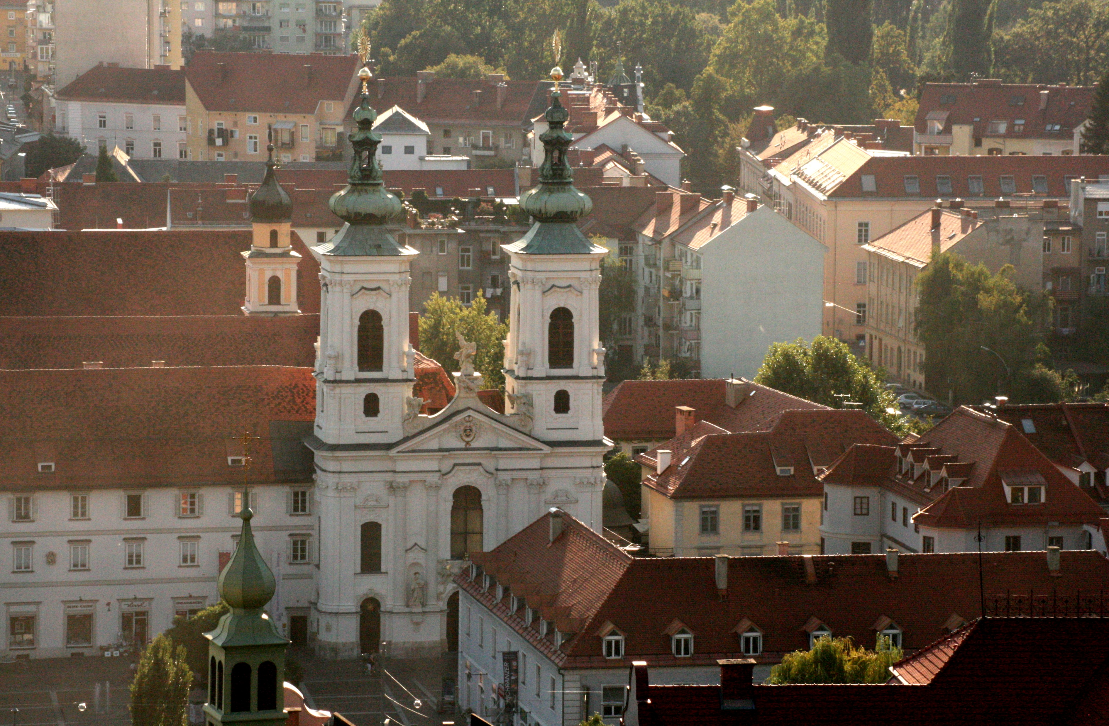 "Mariahilfer Kirche" in Graz, Austria, Europe